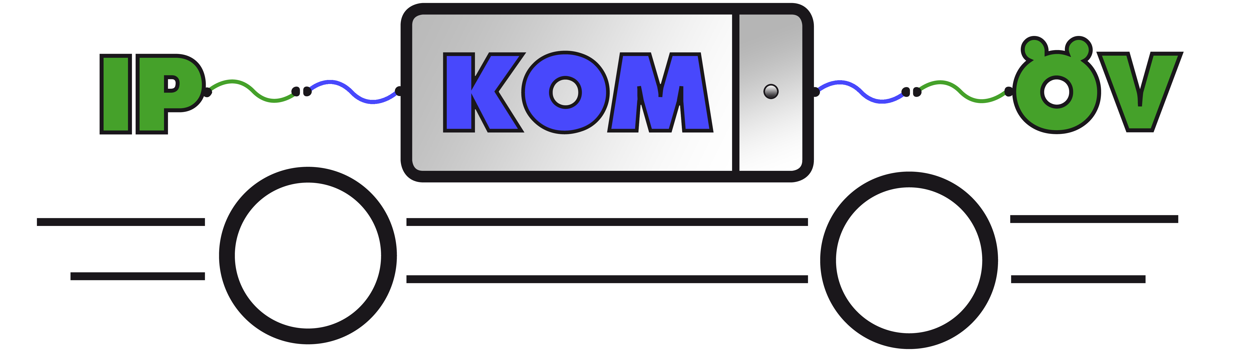 IP-KOM-OeV Internet protocol based communication services for public transport